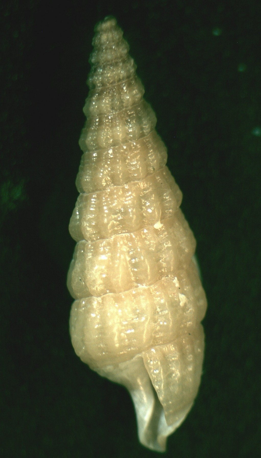 Ataxocerithium serotinum (A. Adams, 1855), a sea snail from the family Cerithiidae; South Australia